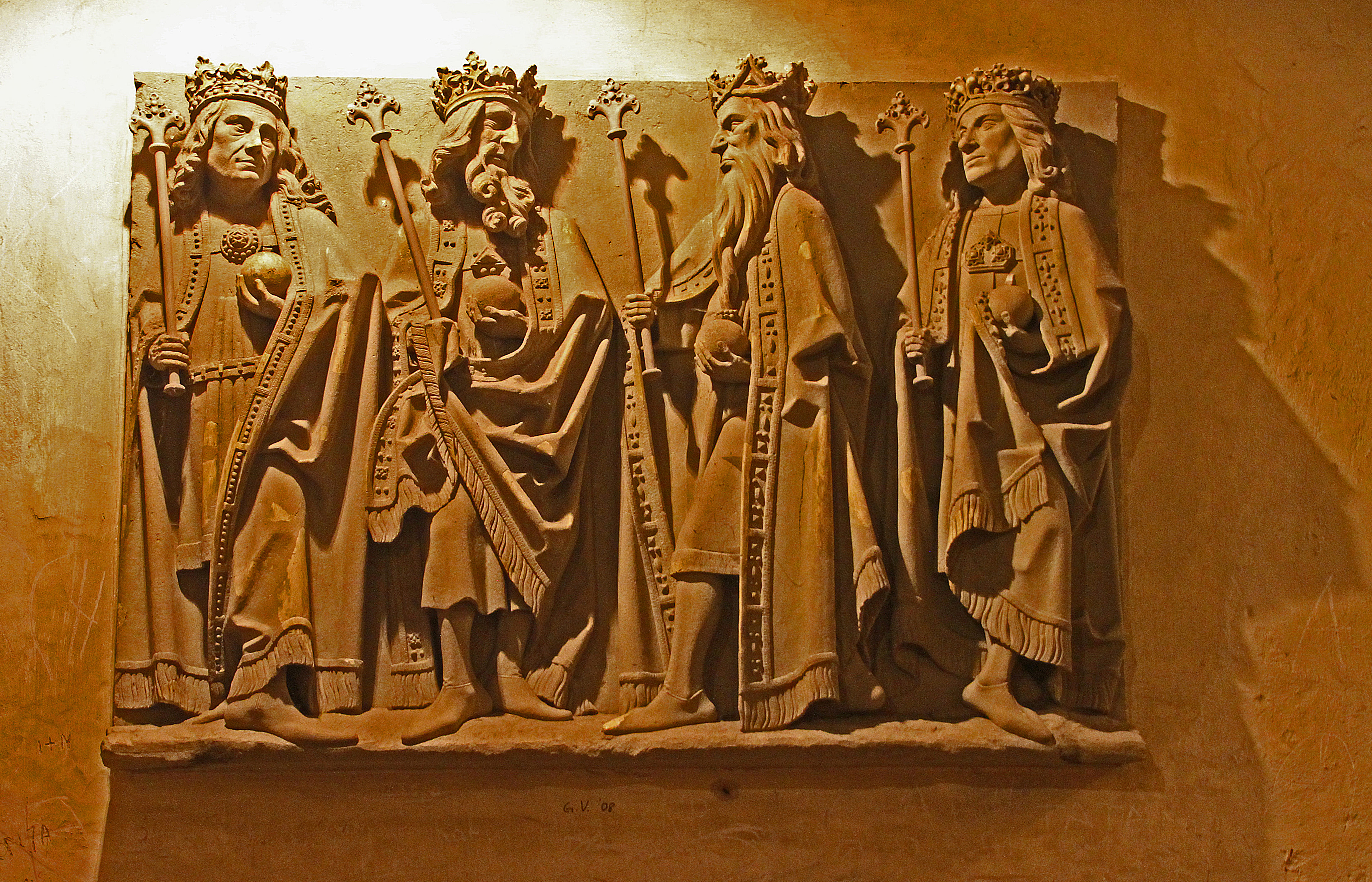 Gohic relief in Speyer cathedral with kings Philipp von Schwaben, Rudolf von Habsburg, Adolf von Nassau, Albrecht von Österreich